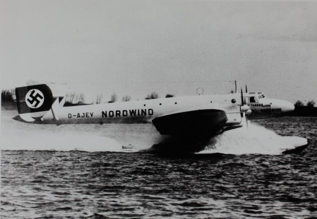 PictionID:38234892 - Catalog:Array - Title:Array - Filename:15_002285.TIF - -------Image from the Charles Daniels Photo Collection.----Album: German Aircraft.-----------PLEASE TAG these images with any information you know about them so that we can permanently store this data with the original image file in our Digital Asset Management System.-----------------SOURCE INSTITUTION: San Diego Air and Space Museum Archive